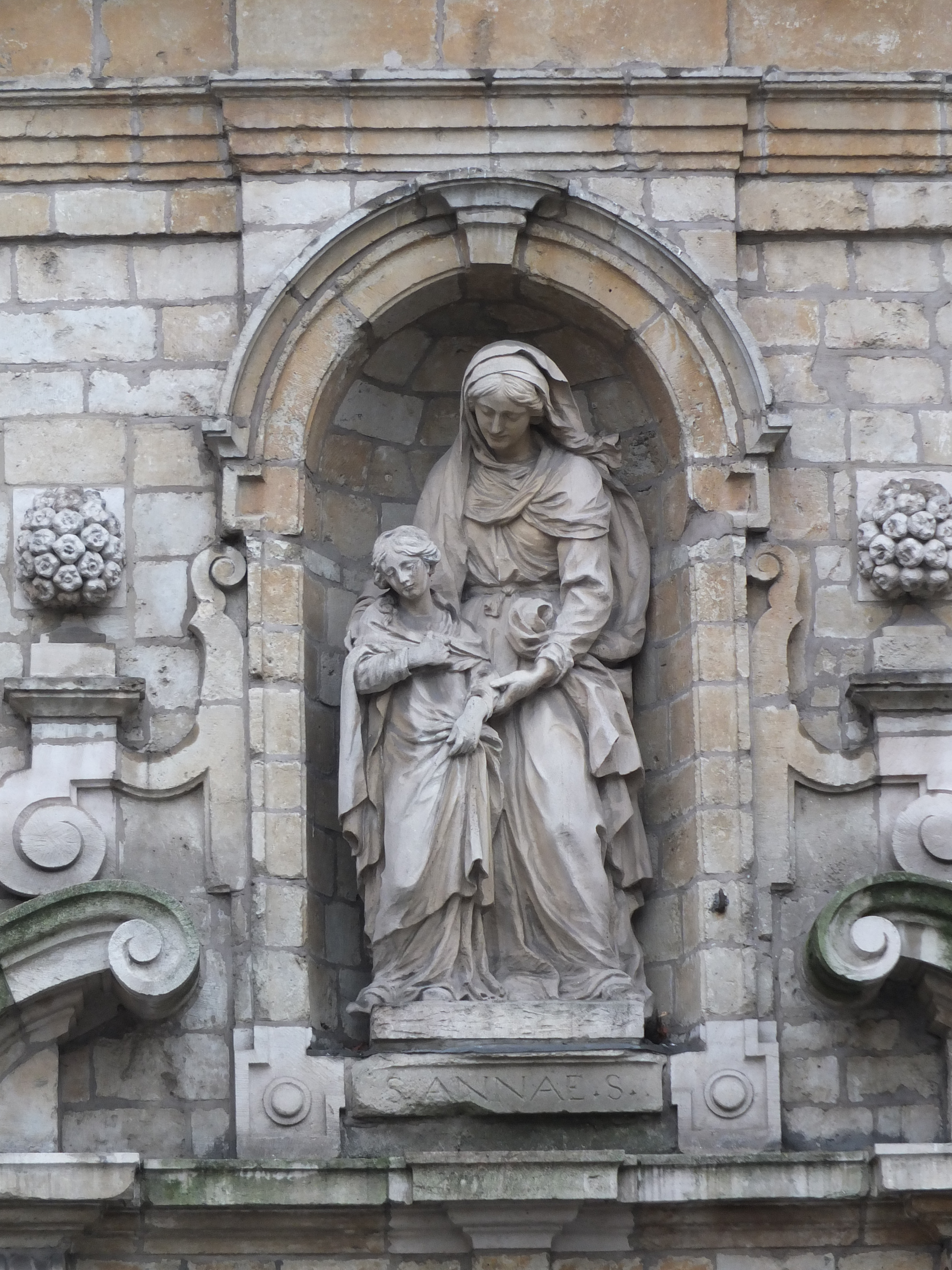 Statue of the 'Education of the Holy Virgin by Saint Anne', copy after an original work of Jerôme Duquesnoy (II) in the wall of the St-Anna Chapel. The Saint Mary Magdalene Church in Brussels dates back to the 13th century